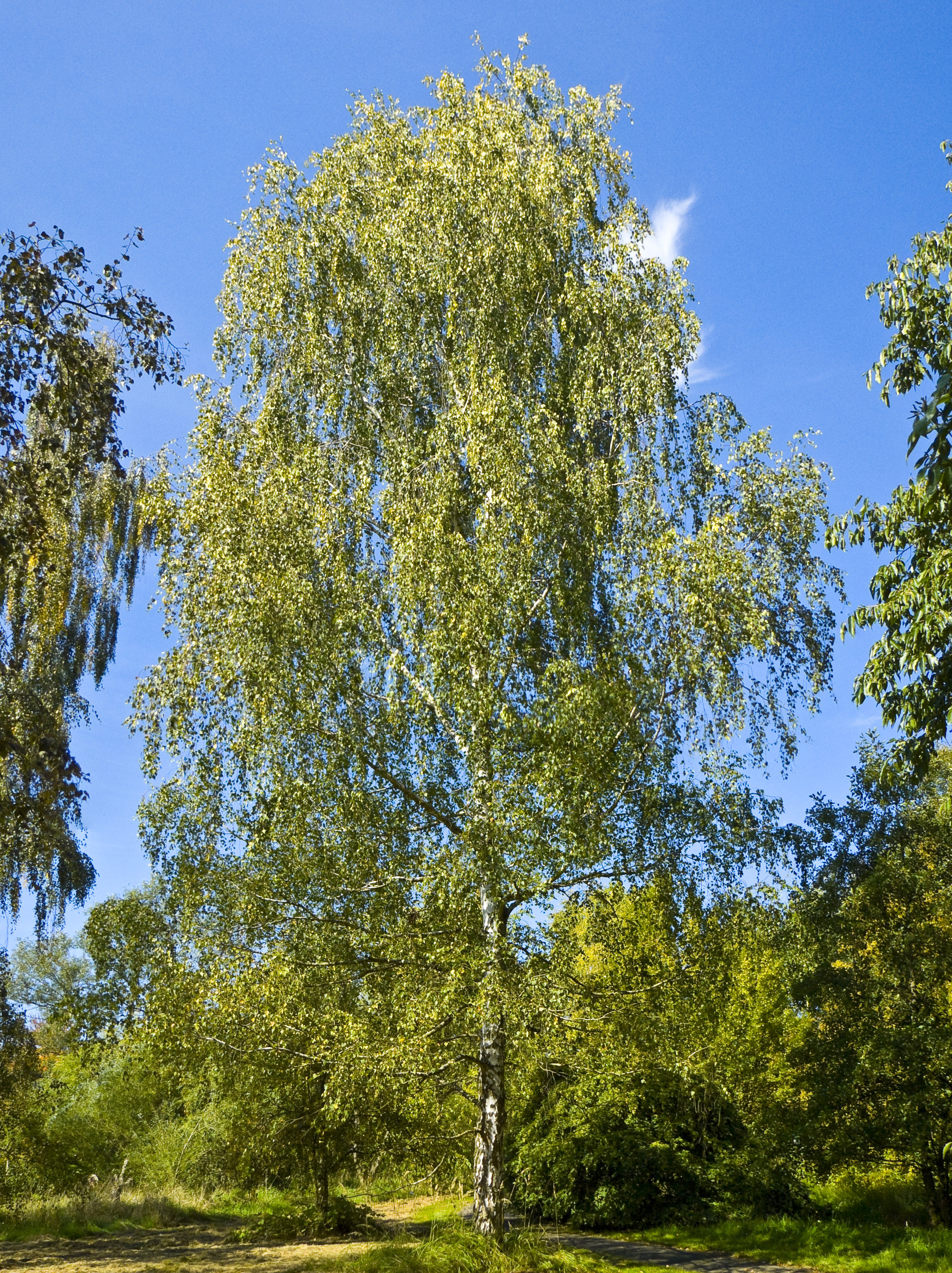 Silver Birch (Betula pendula) in the New Botanical Garden Marburg, Hesse, Germany